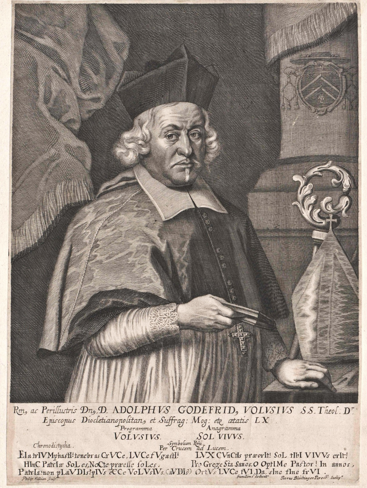 Adolph Gottfried Volusius (1617-1679), Weihbischof von Mainz